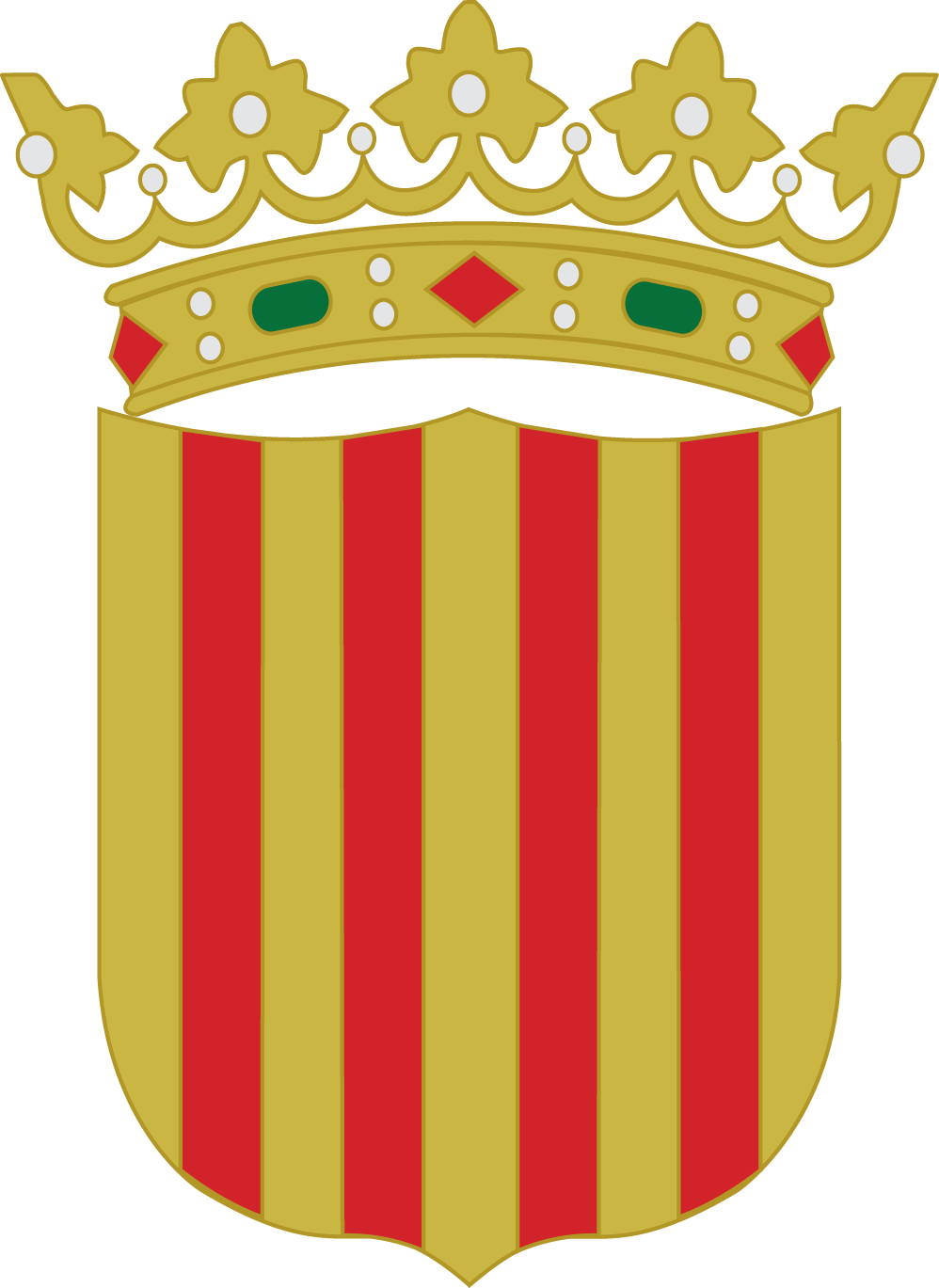 Coat of arms of the Kingdom of Aragon